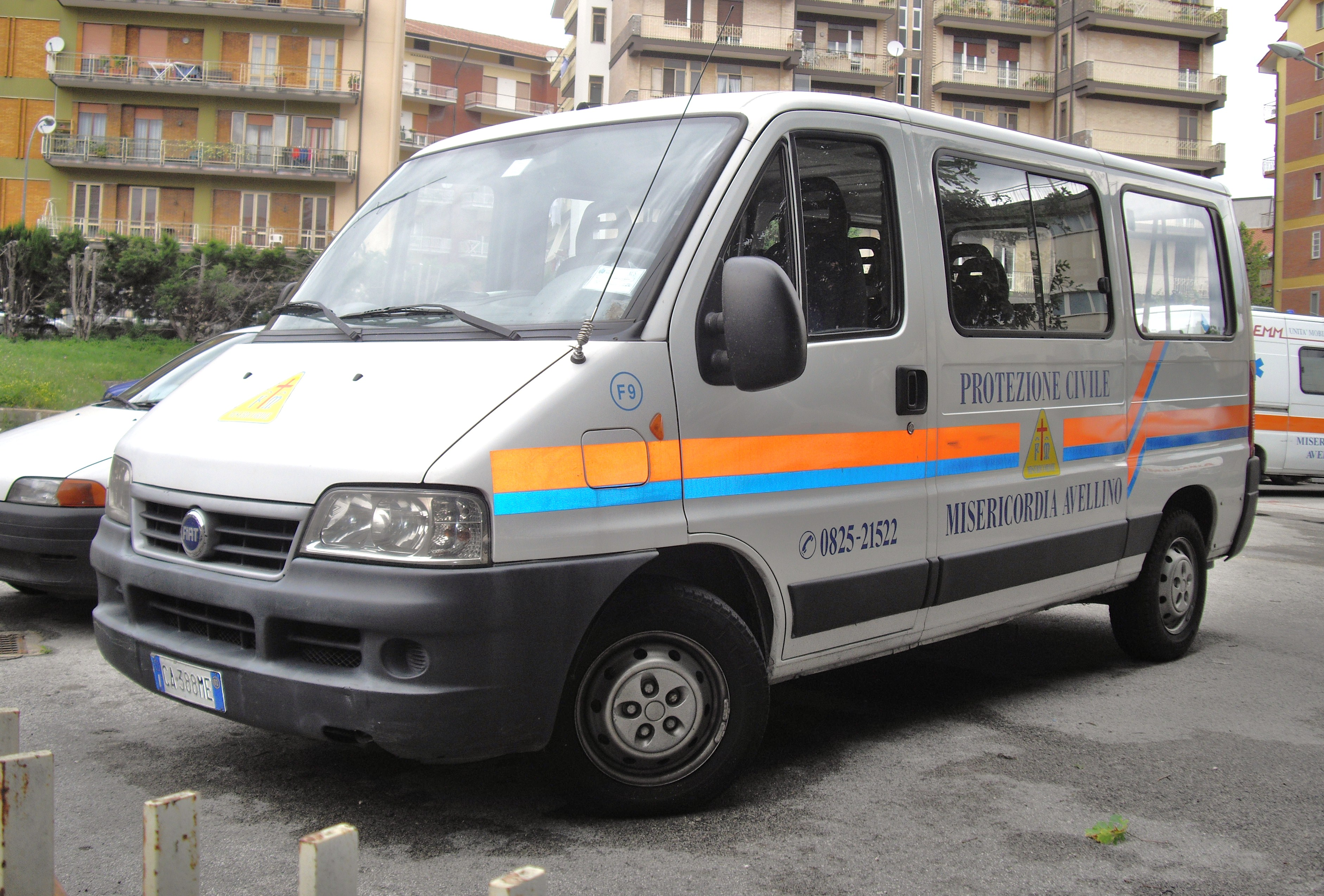 2002 Ducato Misericordia Avellino